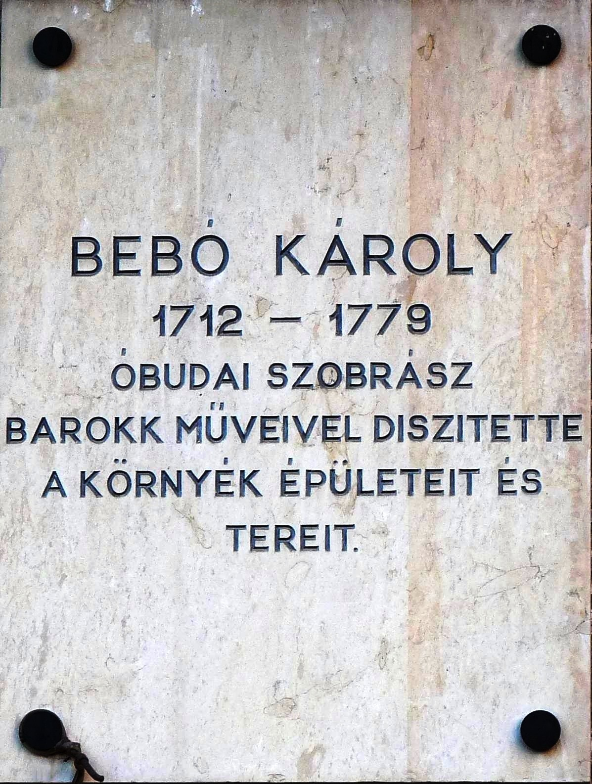 Károly Bebo commemorative plaque in Budapest District III, Bebó Károly Street No 2. Bebó Károly (? 1712 körül –1779) szobrász emléktáblája a róla elnevezett utca elején.